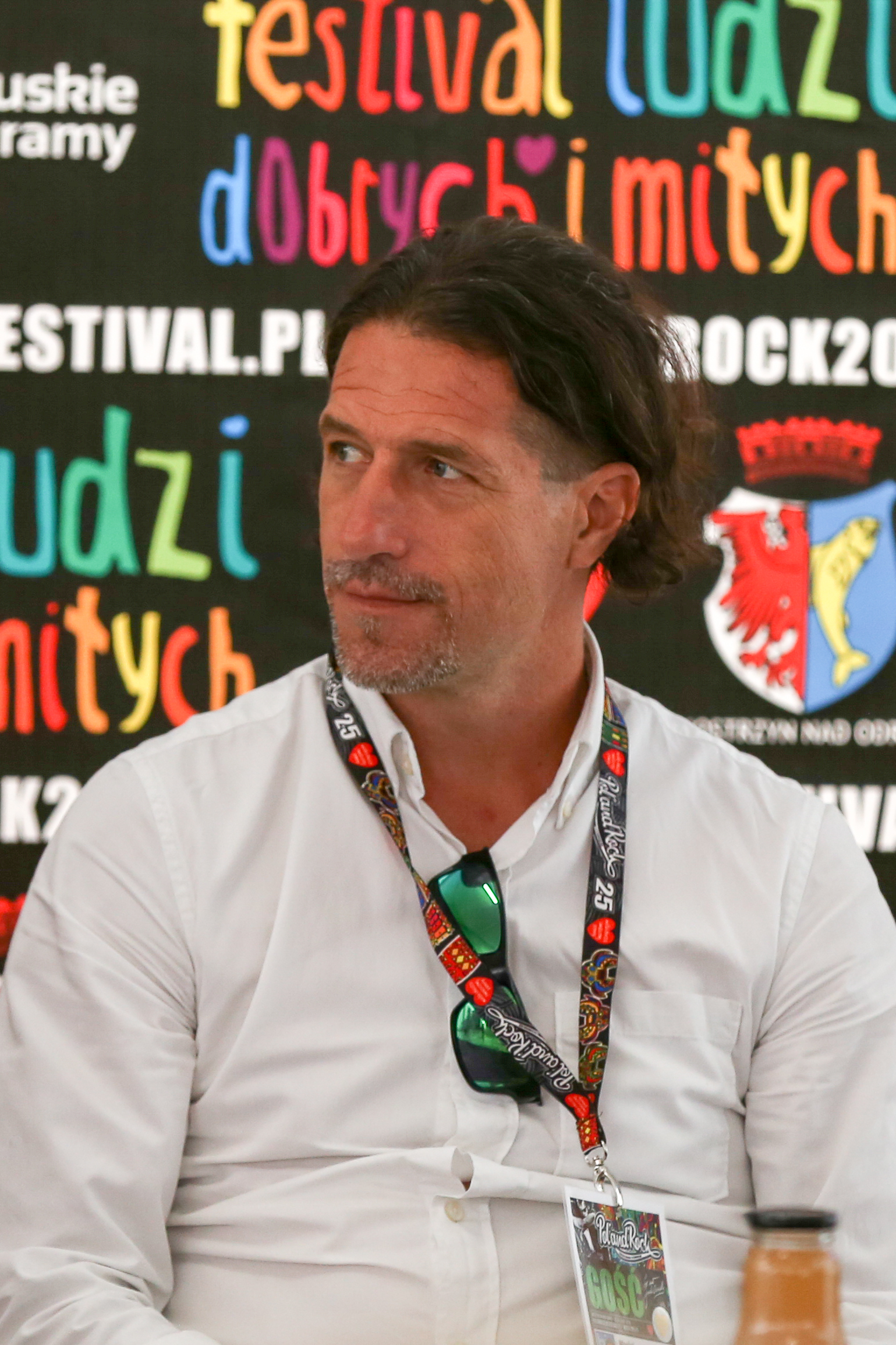 Pol'and'Rock Festival in 2019.